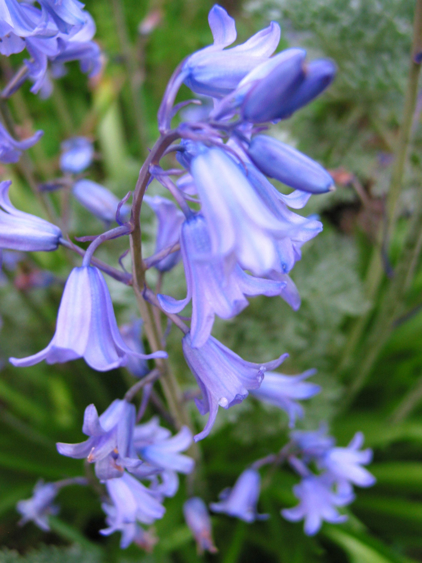 Hyacinthoides × massartiana